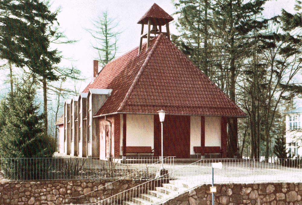 The Danish Church in Lyksborg (Glücksburg), picture from 1967.